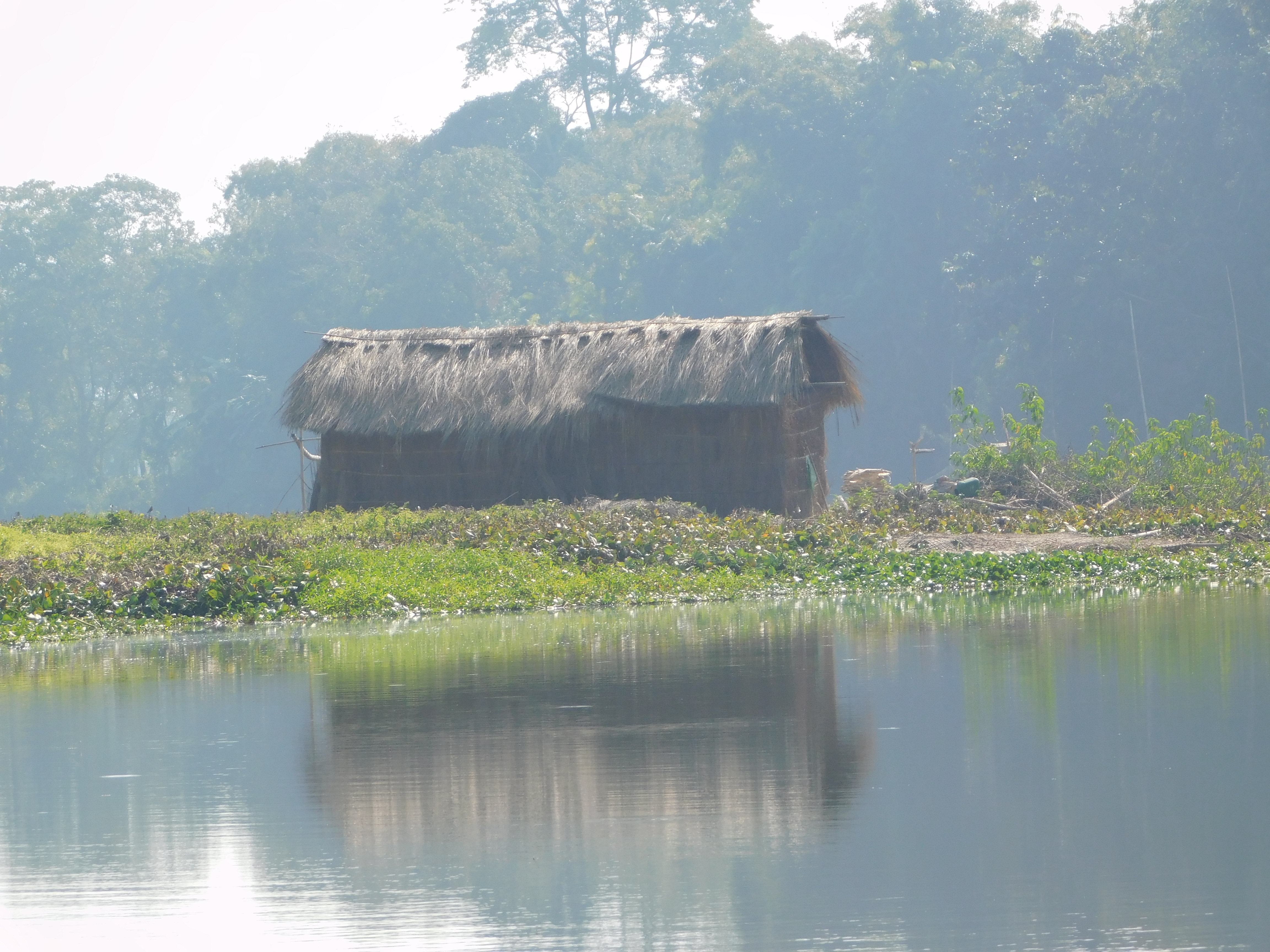 A house in Majuli